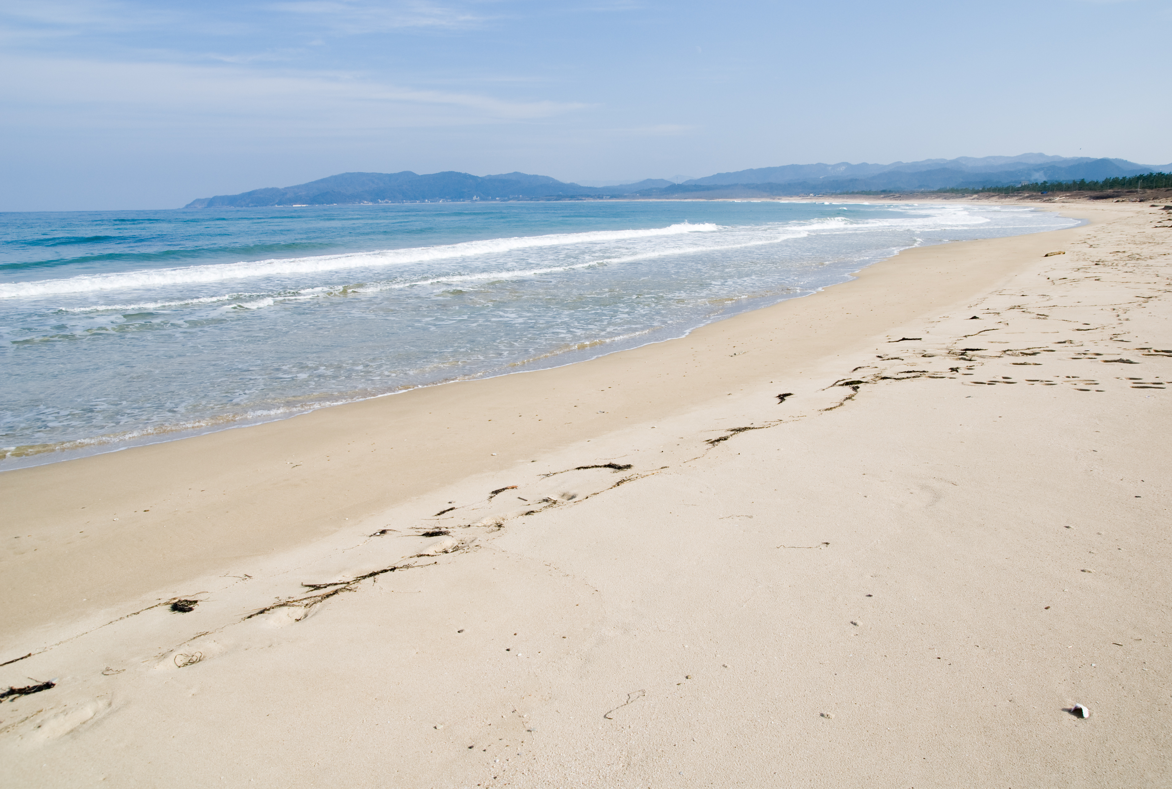 This SYOTENKYO BEACH in Kyotango, Kyoto Prefecture.